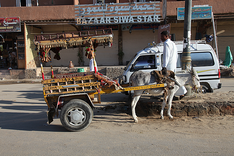 Caretta (donkey-driven chariot) for tourists, town of Siwa, Siwa, Egypt